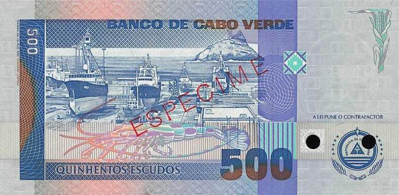 Cape-verdean 1992 500CVE note - back